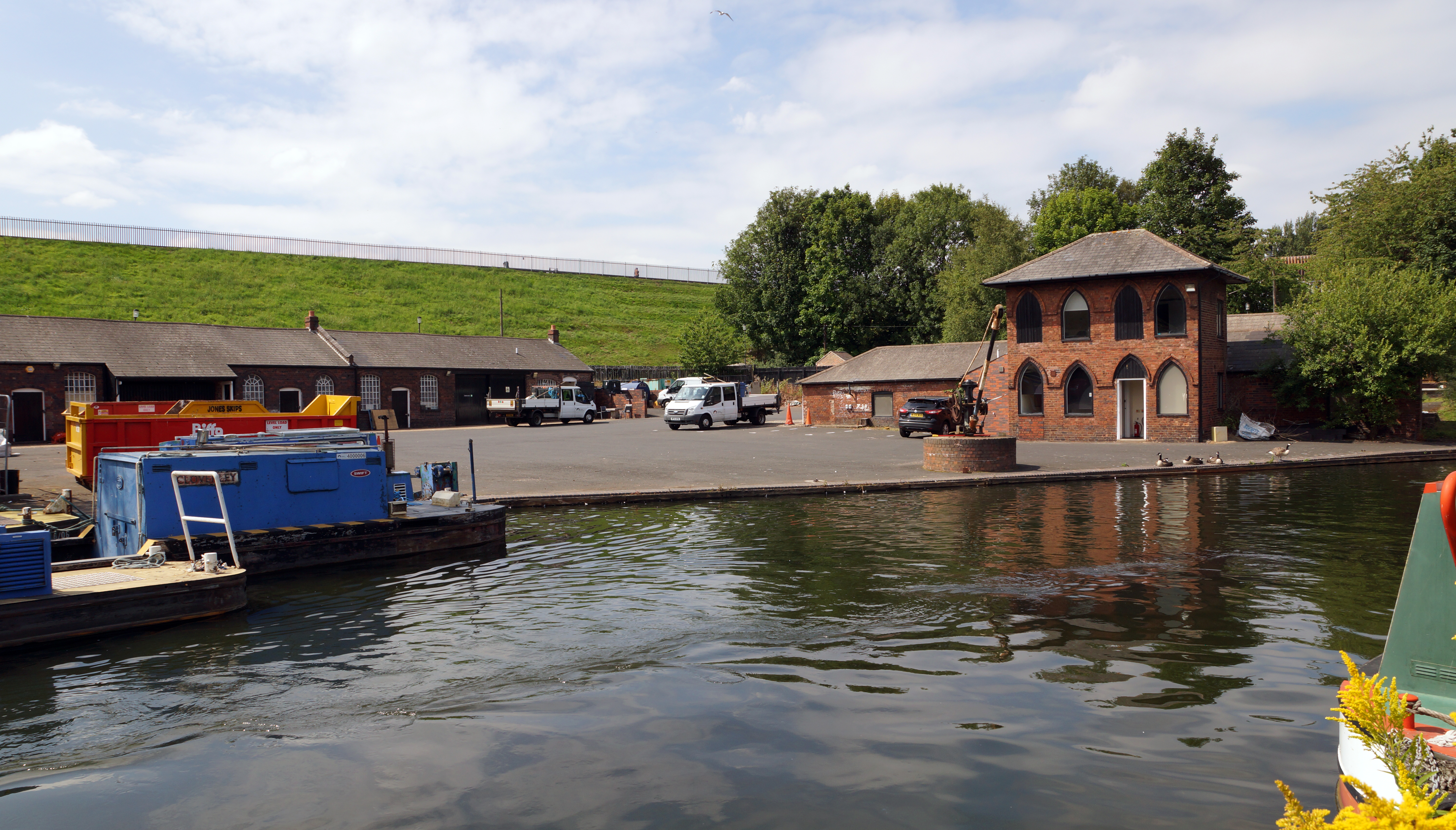 The Canal & River Trust maintenance yard below Edgbaston Reservoir dam on the Icknield Port Loop of the original Birmingham Canal Old Main Line built by James Brindley, 1769, in Birmingham, England. The reservoir was built to supply water to this canal.